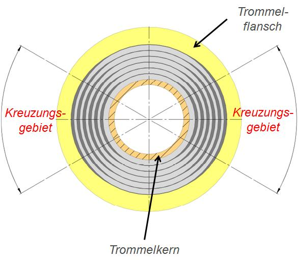 Principle of multilayer wire rope spooling #2